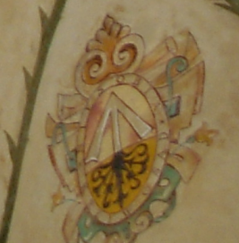 Niesobia coat of arms in Baranow-Sandomierski castle. Detail of Image:Baranów Sandomierski - castle 11.JPG full resolution, by User:Piotrus and tagged with the same “self2.GFDL.cc-by-sa-2.5,2.0,1.0” license.